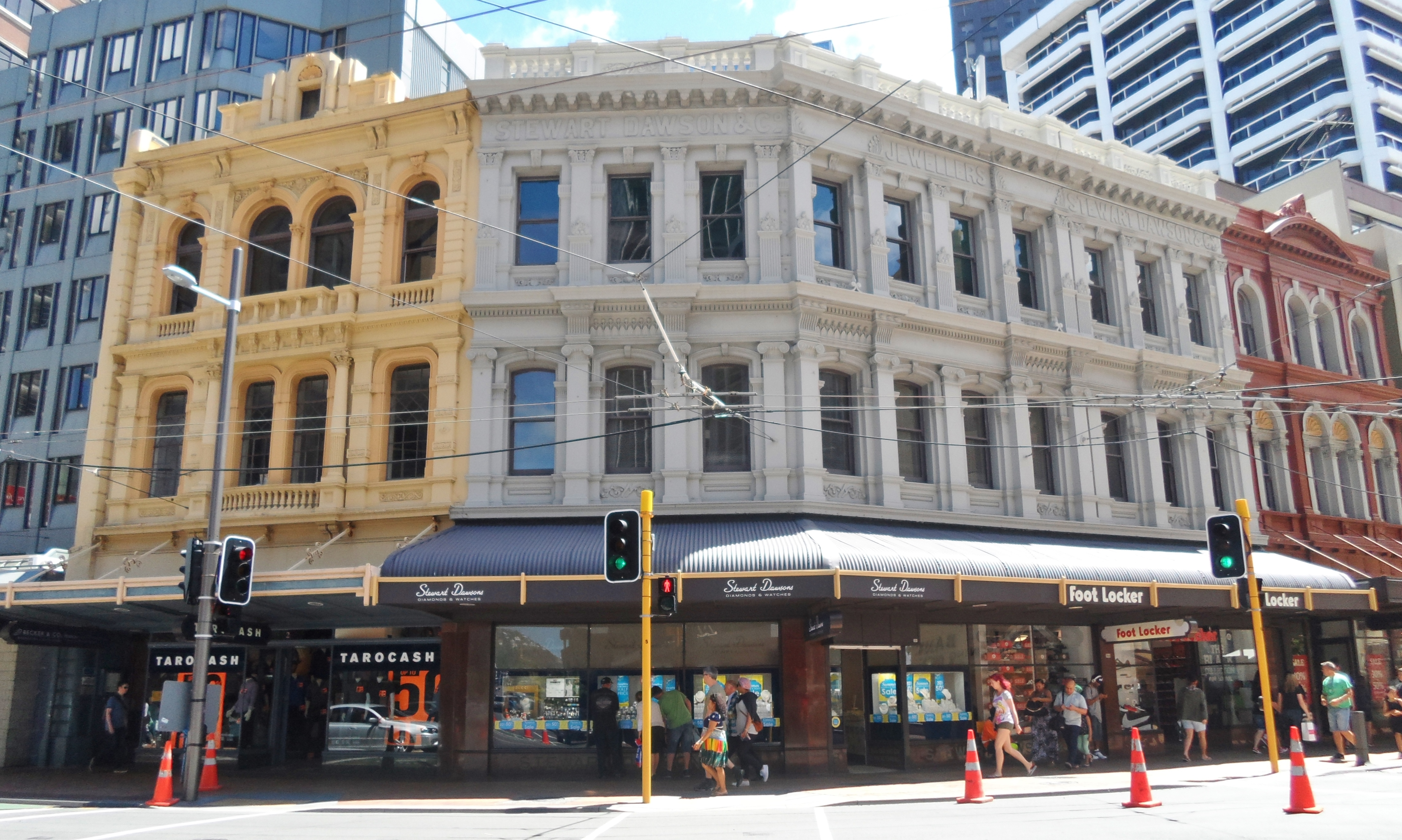 Lambton Quay branch of New Zealand jeweller Stewart Dawsons in the Stewart Dawsons Building, Wellington in 2015.